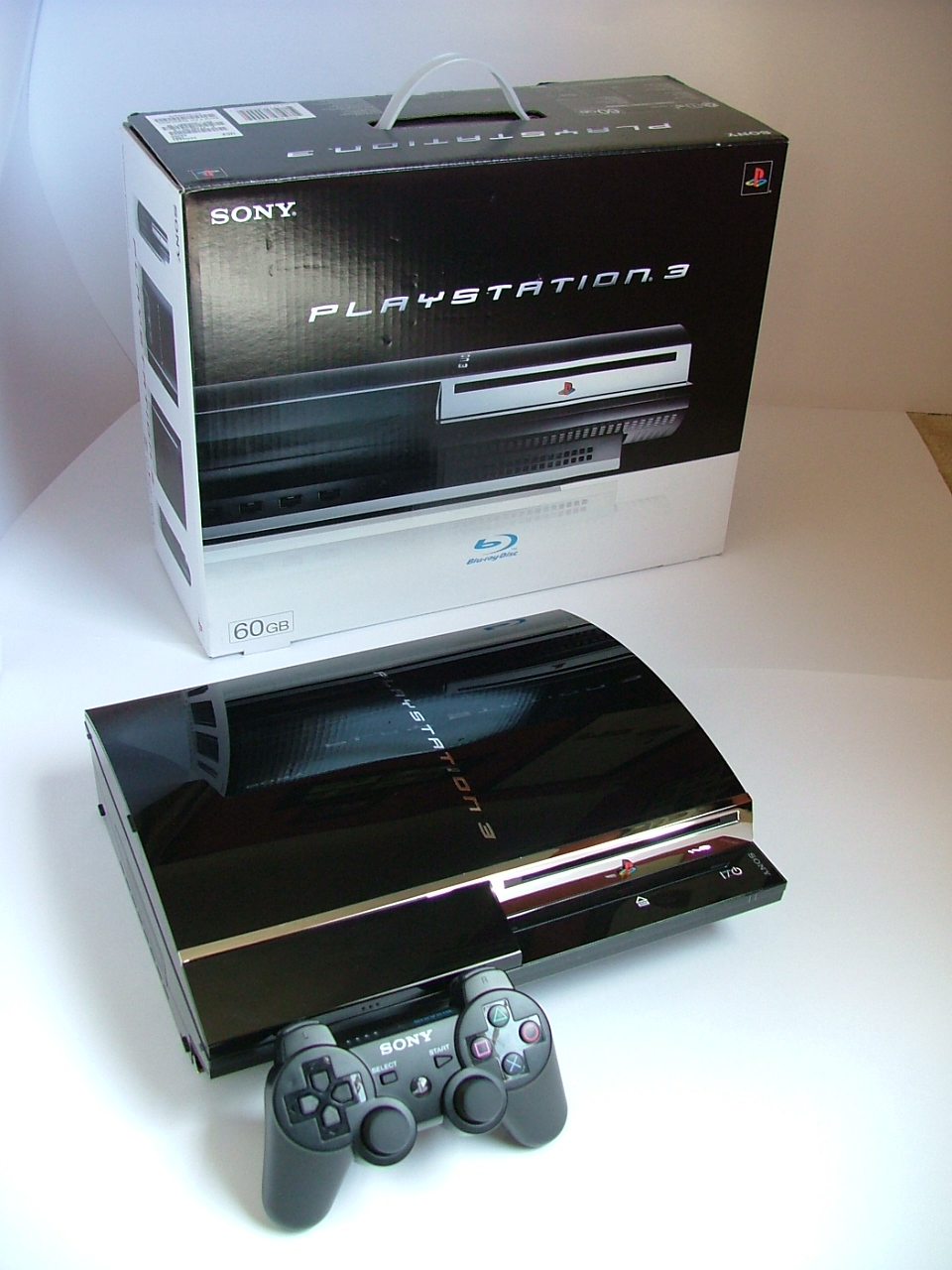 A 60GB PlayStation 3 system with box and SIXAXIS.